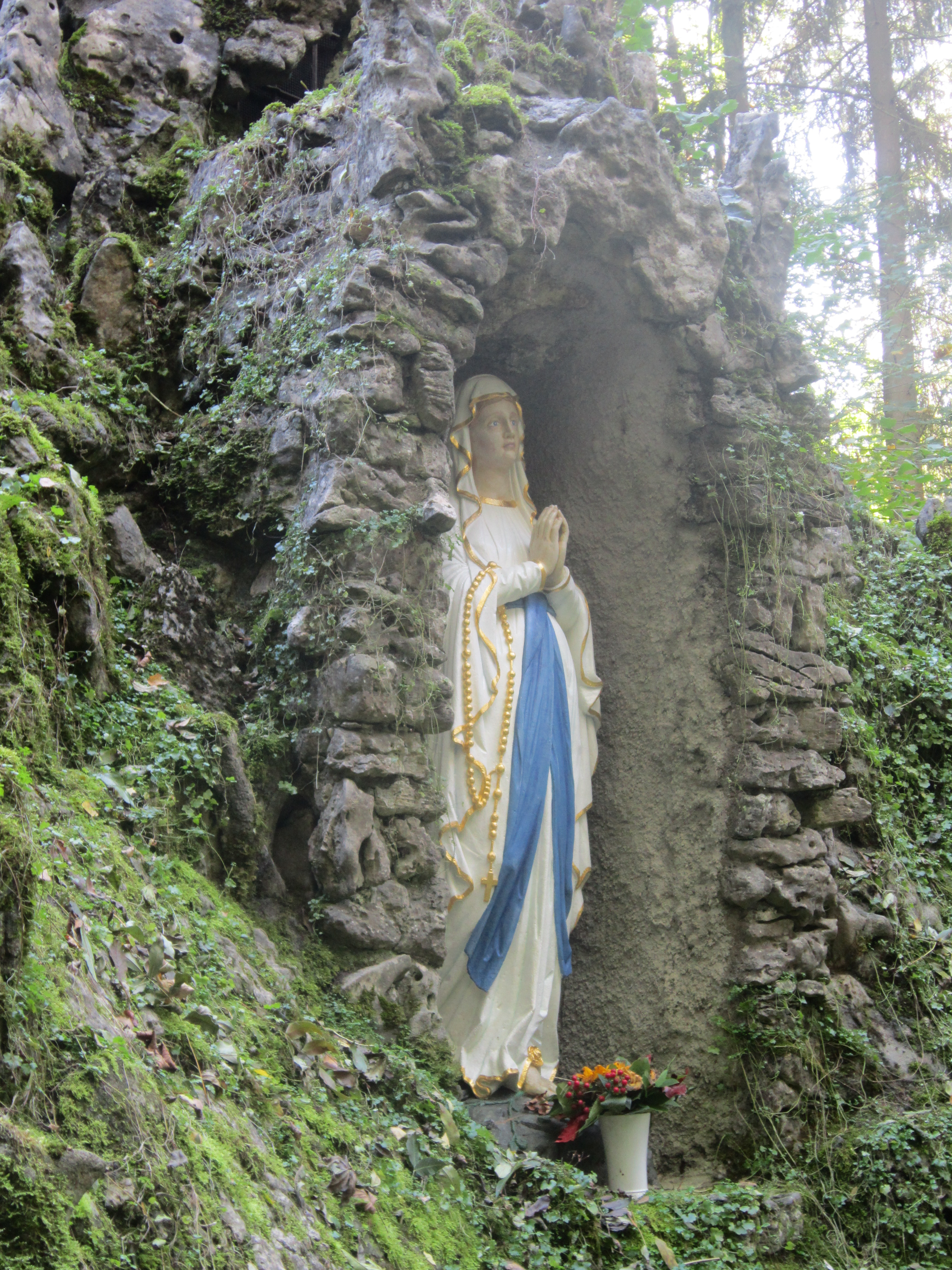 Holy Mary Statue in the Lourdes grotto at the "Terzenbrunn" Chapel in Arnshausen, a quarter of the German spa town of Bad Kissingen in Lower Franconia (Bavaria).